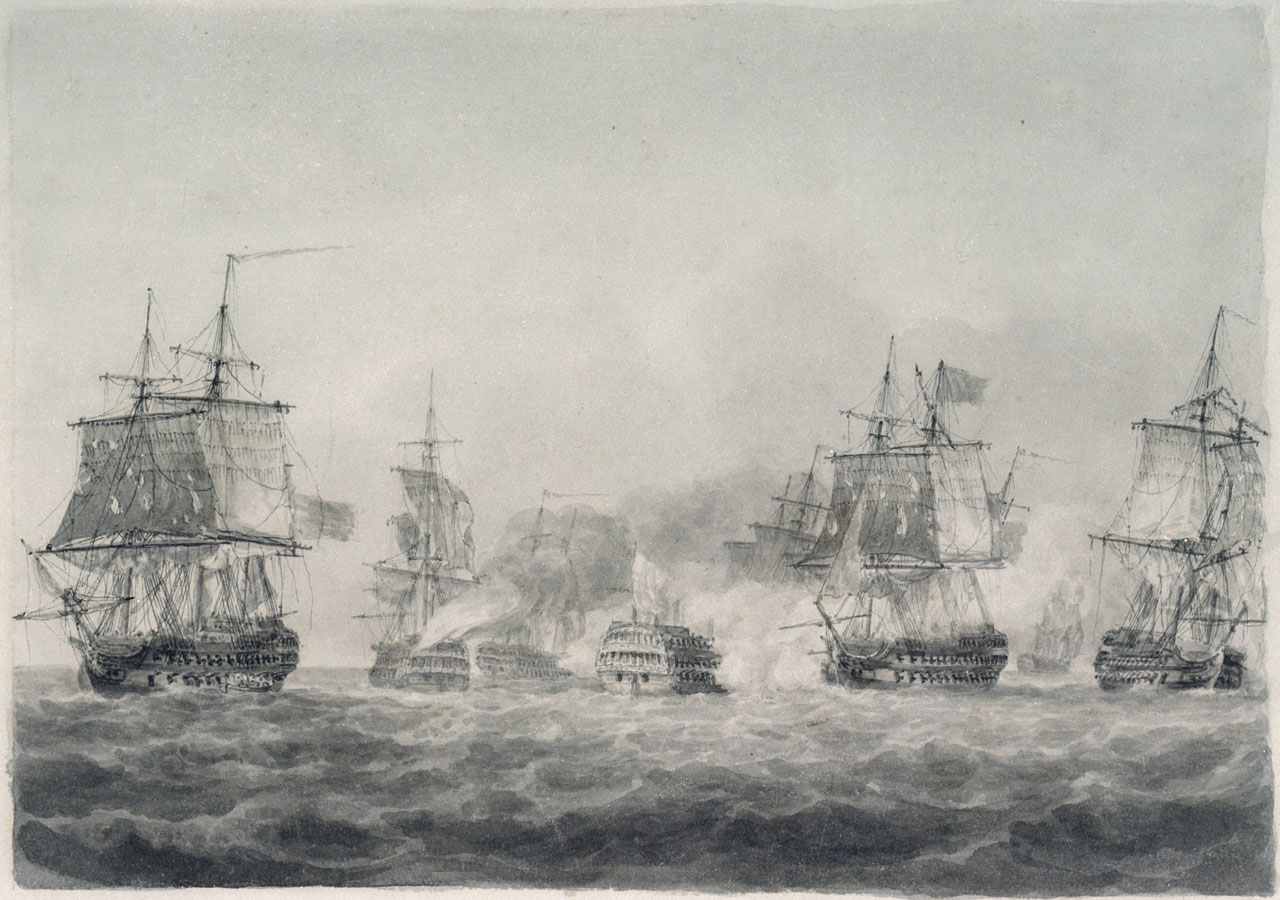 Vessels: Ardent 1796 [HMS], Powerful 1783 [British navy], Venerable 1784 [British navy]